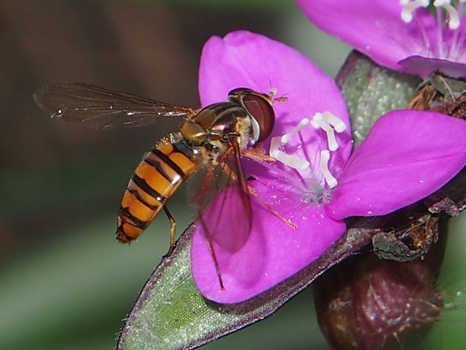 Syrphid fly feeding on Tradescantia zebrina